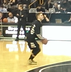 Travis Bader, Oakland University shooting guard, during warmups during a February 6, 2014, game against Cleveland State University.